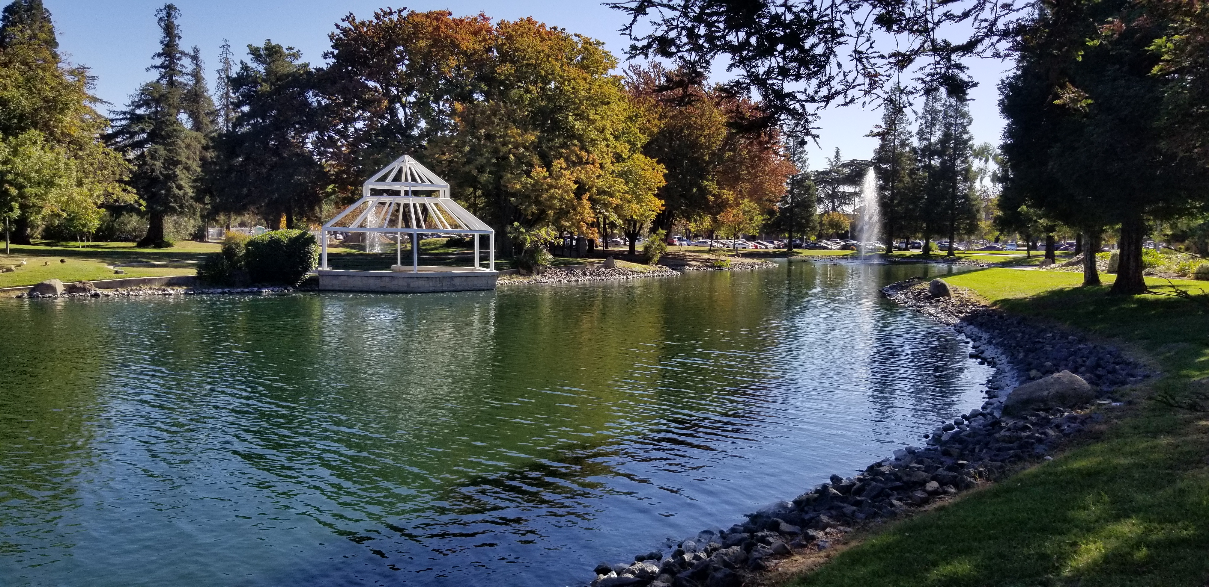 Water feature (Sequoia Lake) at CSU Stanislaus, that runs along Crowell Road.